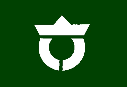 Flag of Rokkasho Aomori